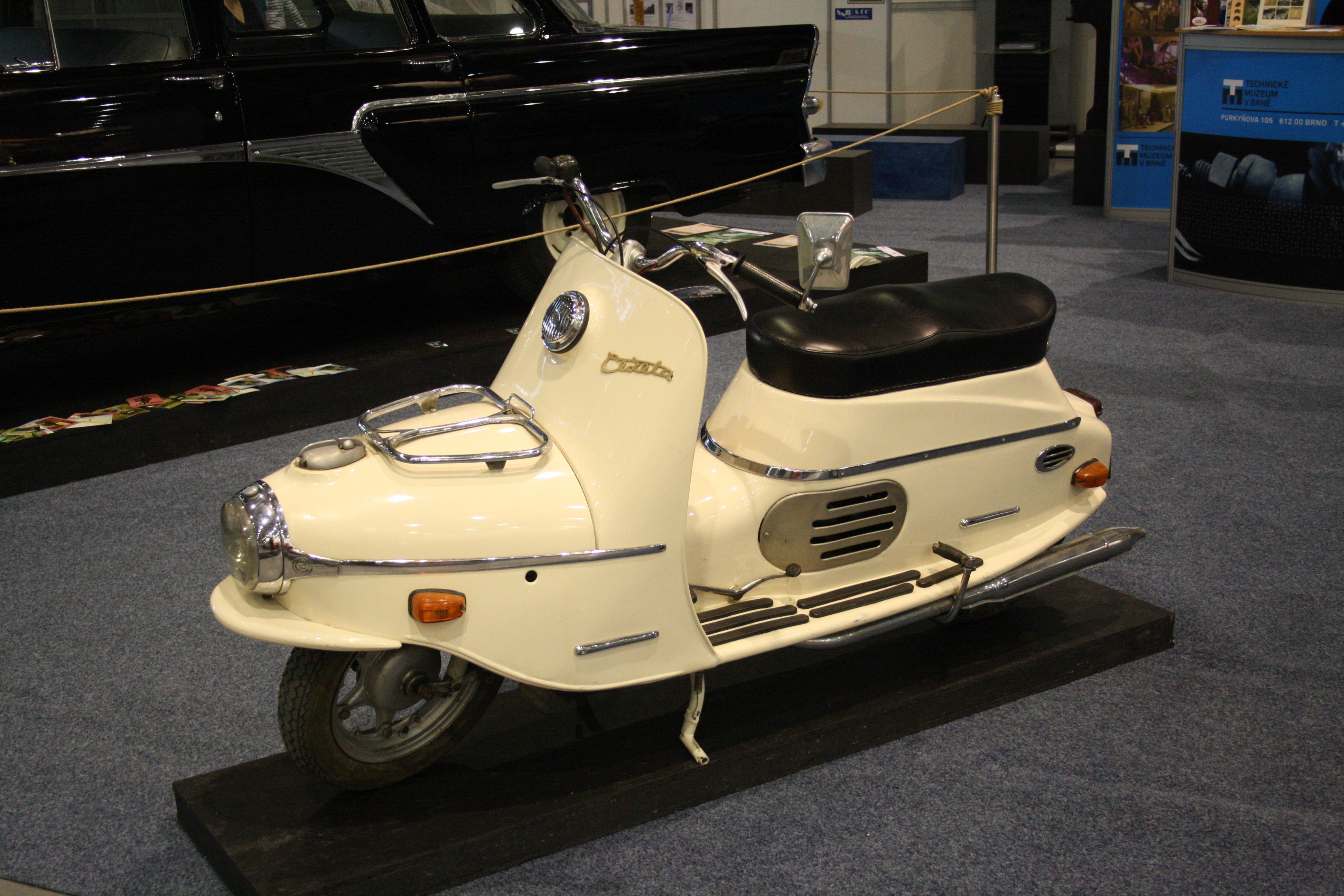 Presentation of touristic destinations of Czech Republic.